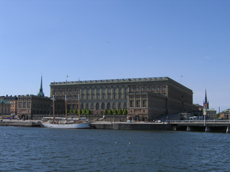 Royal Palace, Stockholm, Sweden.